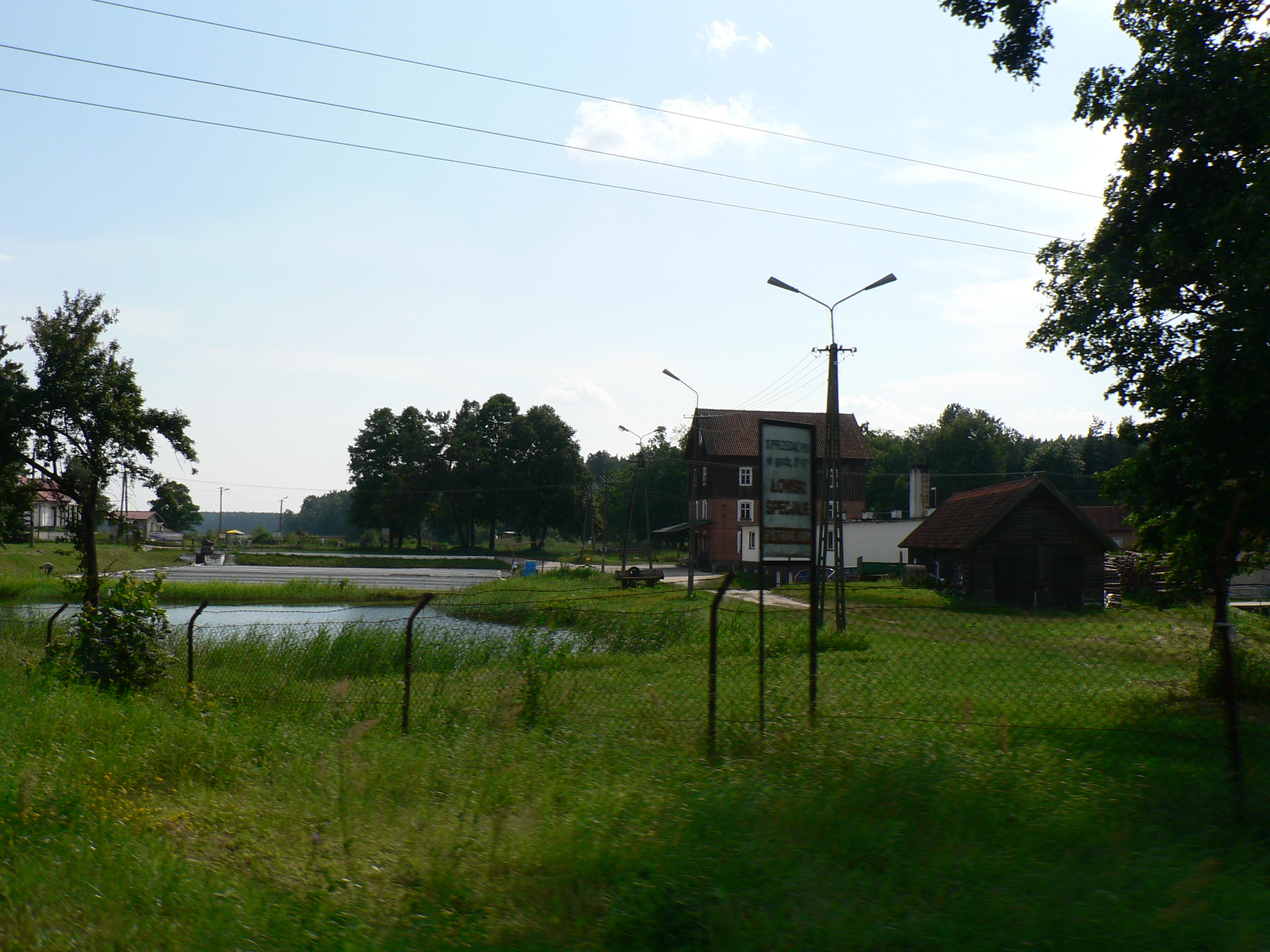 Lake Maróz in Swaderki